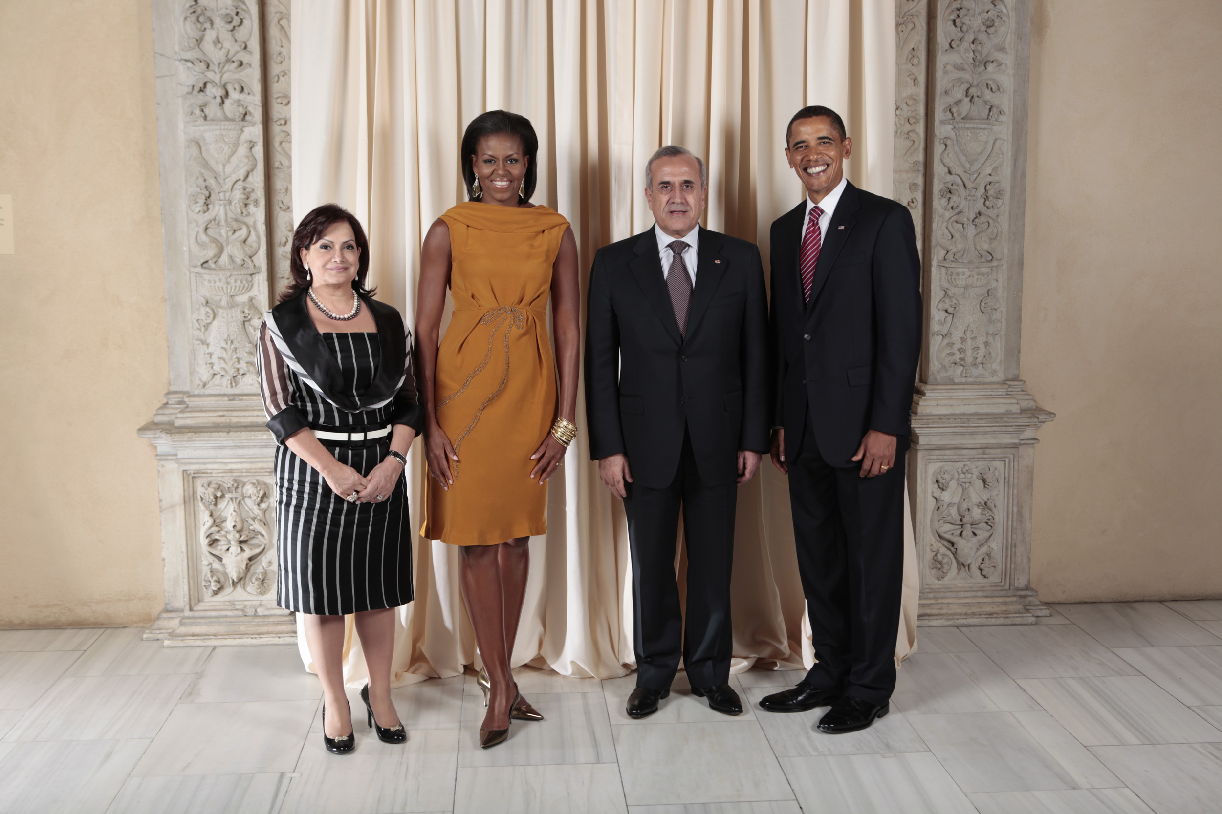 President Barack Obama and First Lady Michelle Obama pose for a photo during a reception at the Metropolitan Museum in New York with Michel Suleiman, President of Lebanon, and his wife, Wafaa Suleiman.